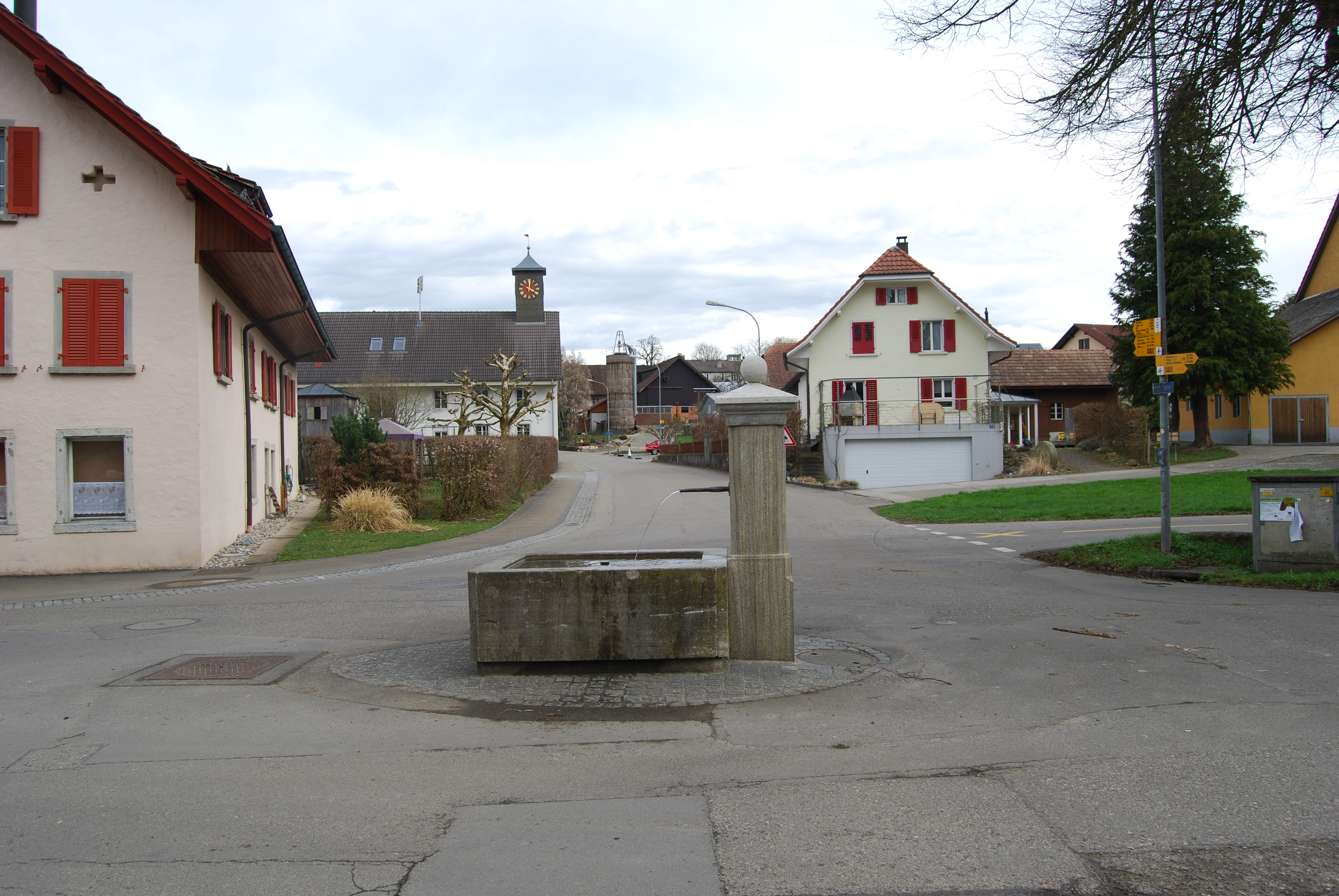 Scherz, canton of Aargau, SwitzerlandEsperanto: Scherz, Kantono Argovio, Svislando